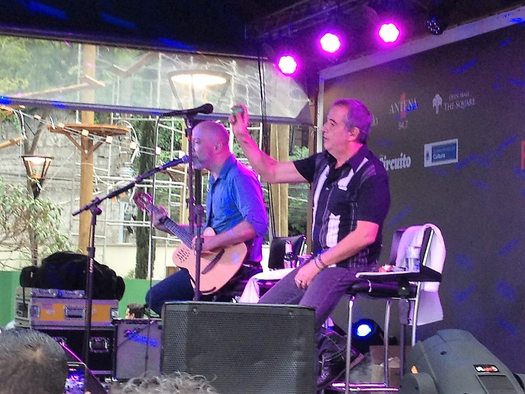 Brazilian rock band Ira! performing in Cotia, São Paulo, Brazil, during its Ira! Folk tour. Edgard Scandurra is to the left, and Nasi to the right.